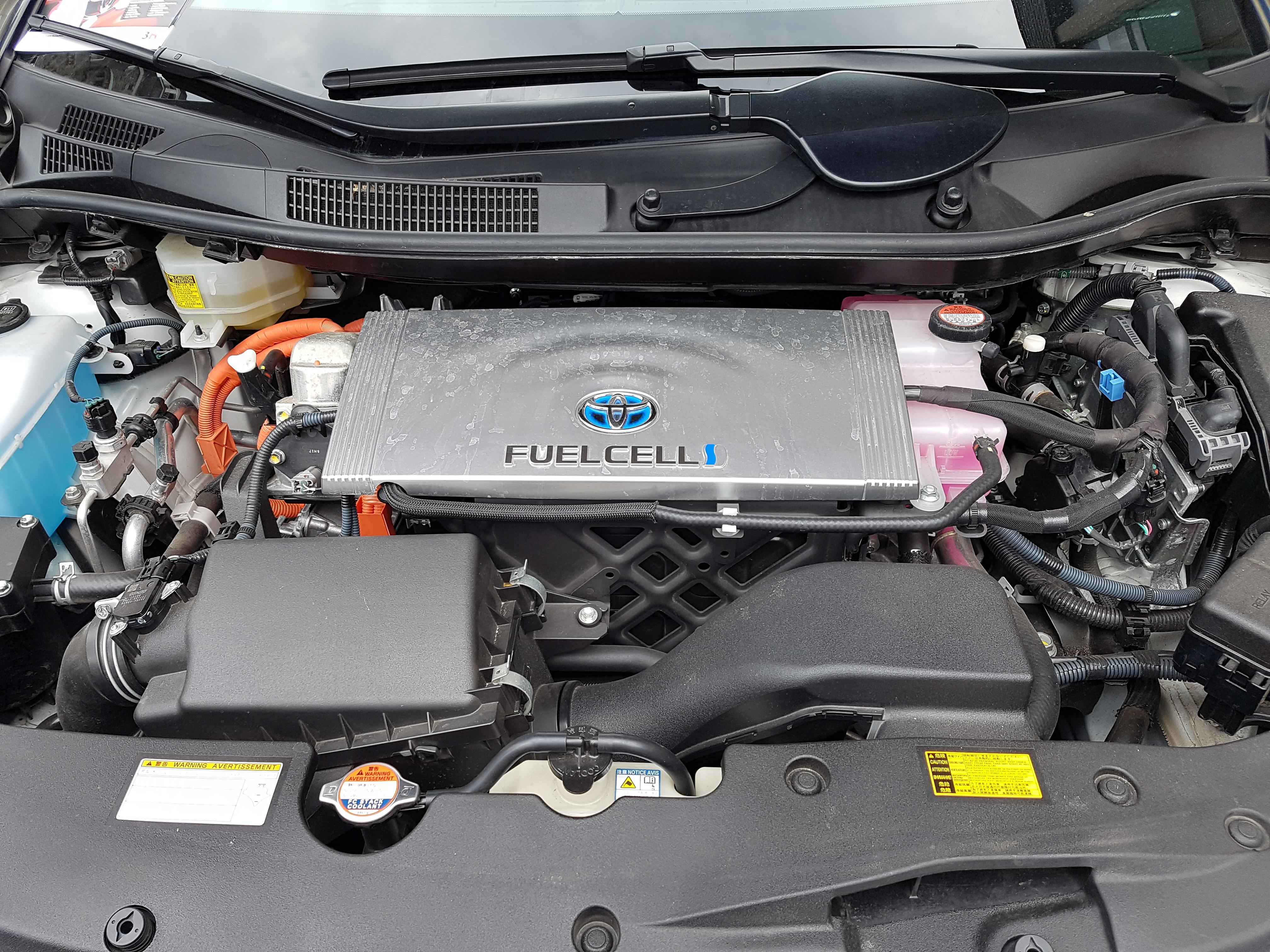 Motor Toyota Mirai